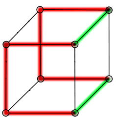 Hamiltonian cycle in the hypercube